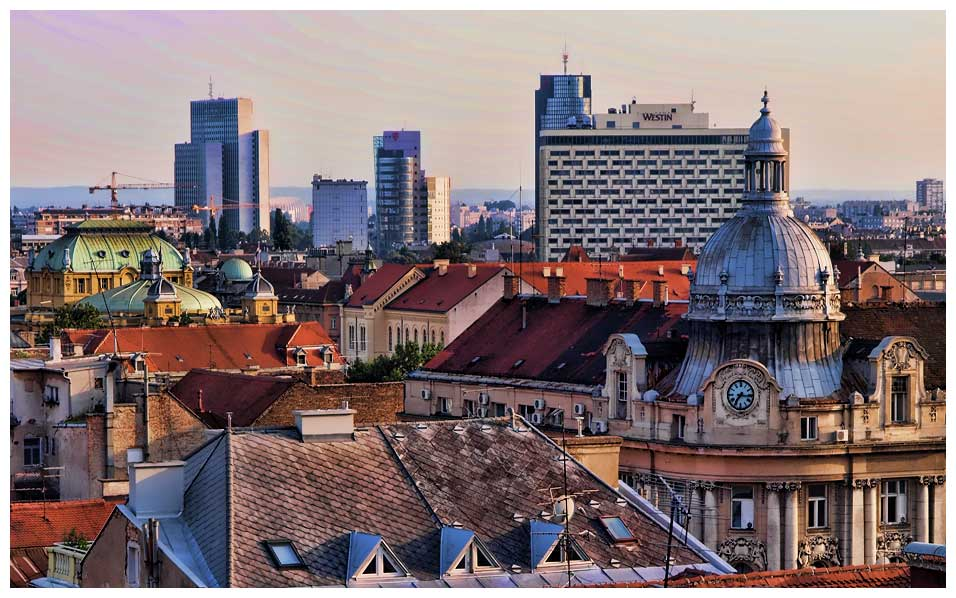 Feel free to use this image, but you should give credits and LINK to author web page Ciudad Zagreb, capital de Croacia, 15 de julio 2009 Zagreb city, the capital of Croatia, 15th of july 2009